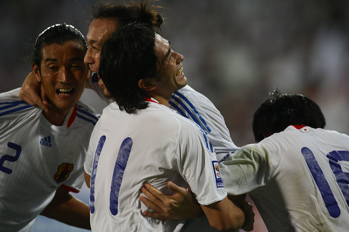 NOVEMBER 19, 2008 - Football : Marcus Tulio Tanaka of Japan celebrates his goal during the 2010 FIFA World Cup Asian Qualifiers Final round Group 1 match between Qatar and Japan at Al Sadd Club Stadium on November 19, 2008 in Doha, Qatar. (Photo by Tsutomu Takasu)